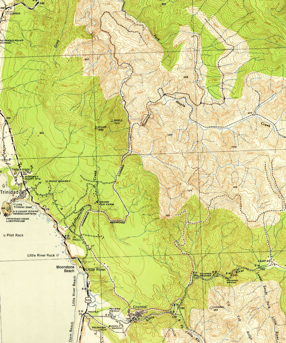 Hammond Lumber Company railroads brought logs and lumber to Samoa from Little River and Big Lagoon until the railway trestles were destroyed by wildfire in 1945.